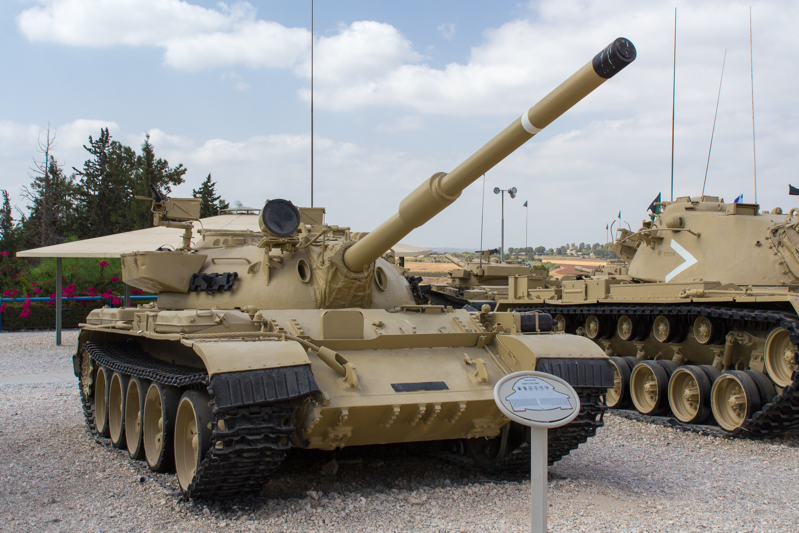 Tiran-5Sh tank at the Yad LaShiryon museum, Latrun, Israel